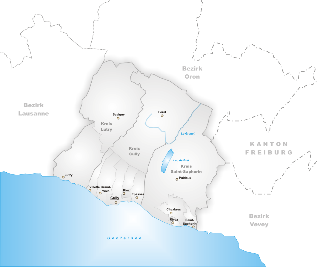 Municipalities of District Lavaux until 2007